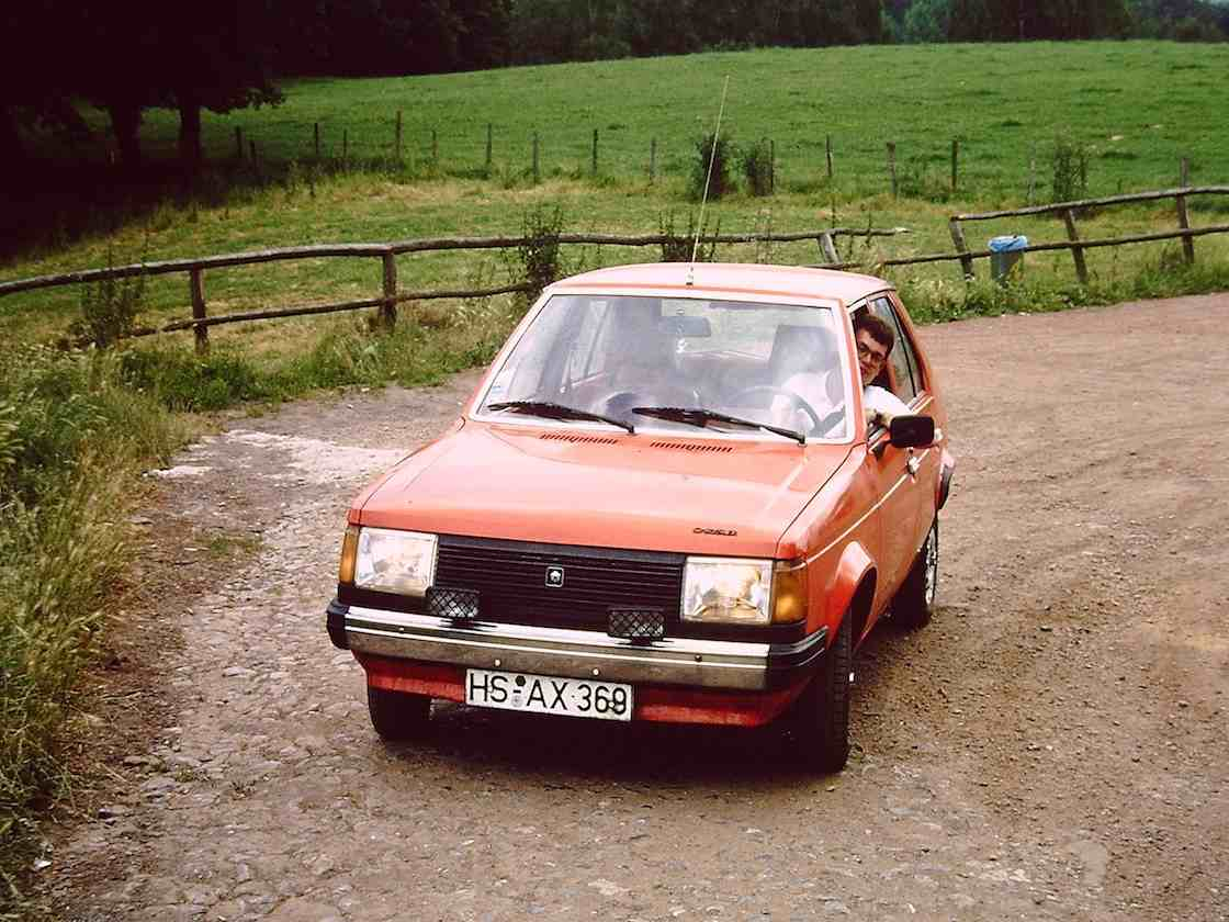 Chrysler Simca Horizon LS, build 05/1978. Picture taken 1986